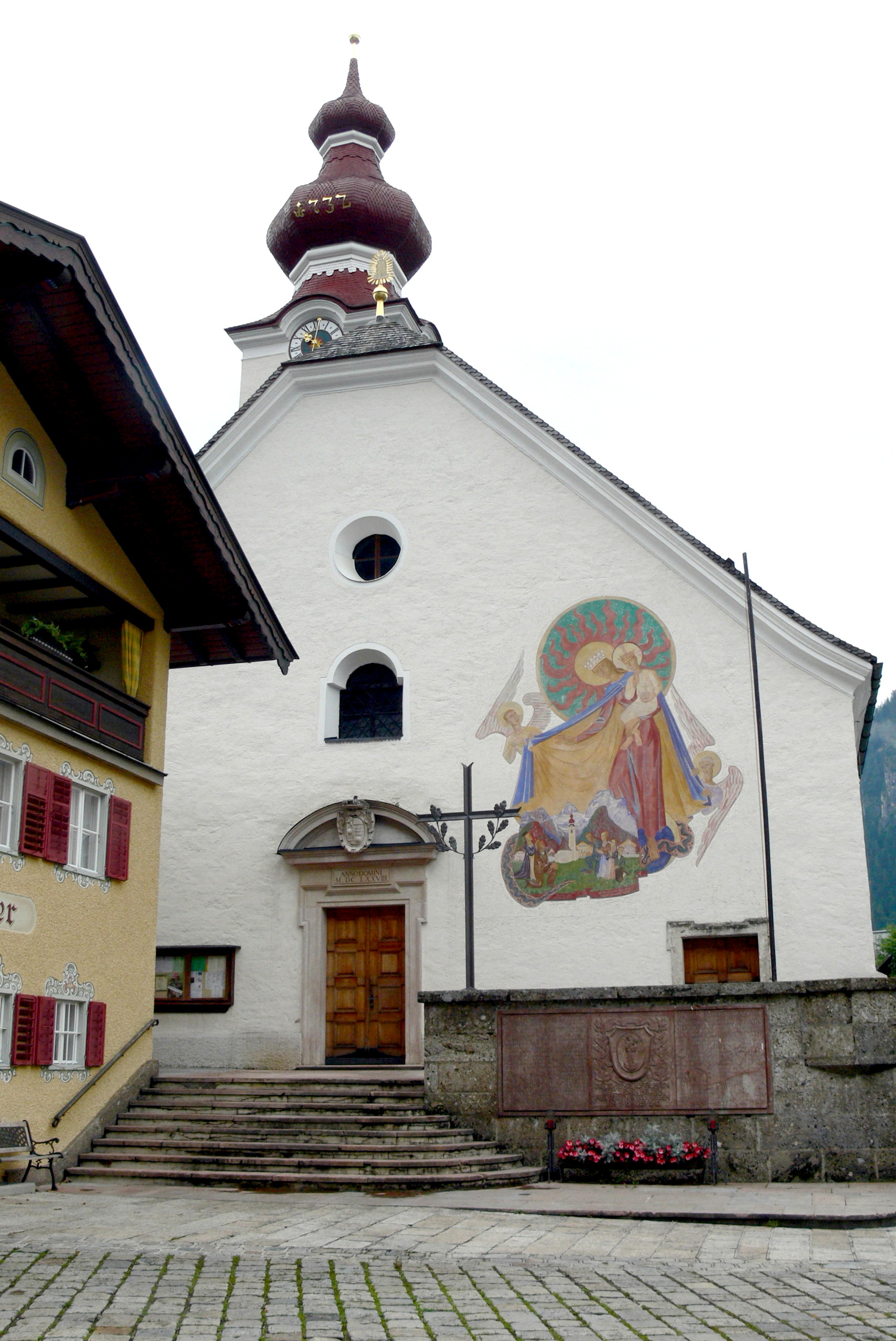 Lofer parish church - Facade.